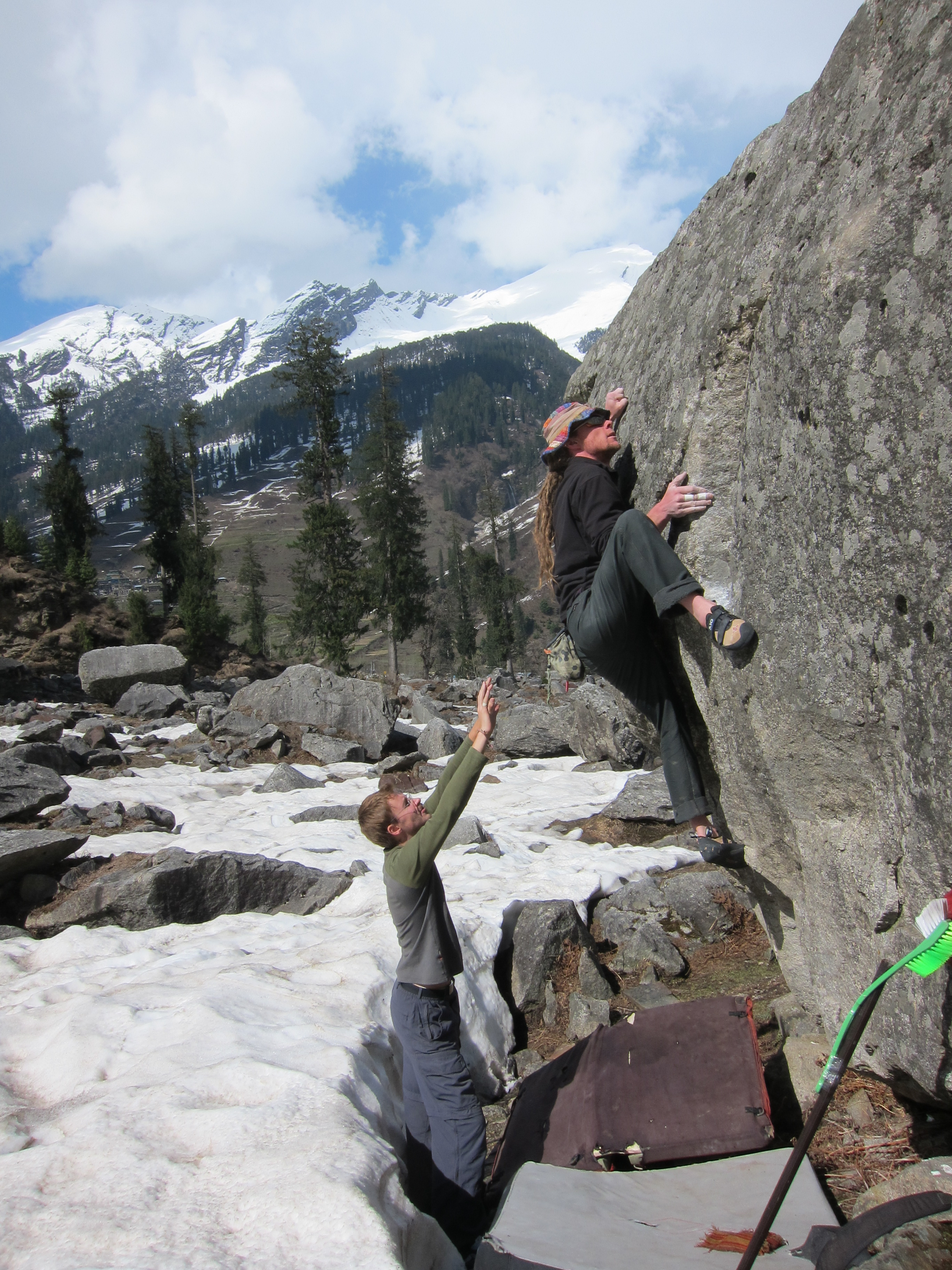 working something in Solang. I don't know which one, we normally just climbed (or didn't climb) random problems